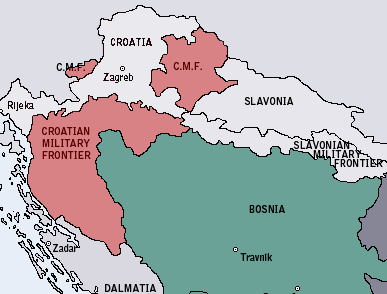 Map of the Kingdom of Croatia (red) in late 1867 and early 1868 (before the Croatian-Hungarian Nagodba and the establishment of the Kingdom of Croatia-Slavonia). The Kingdom of Slavonia was independent of Croatia at the time, but was under its control for most of the existence of both Kingdoms.